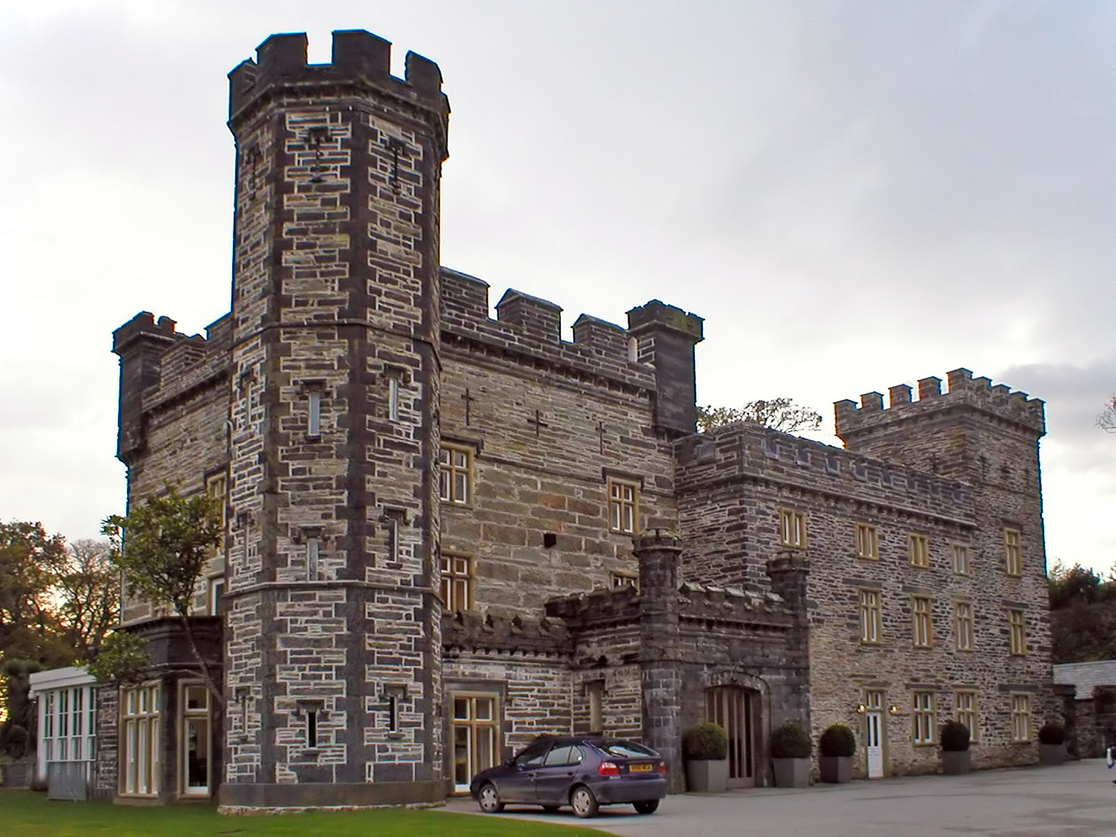 View of Castell Deudraeth near Portmeirion. Author: Chris Jones